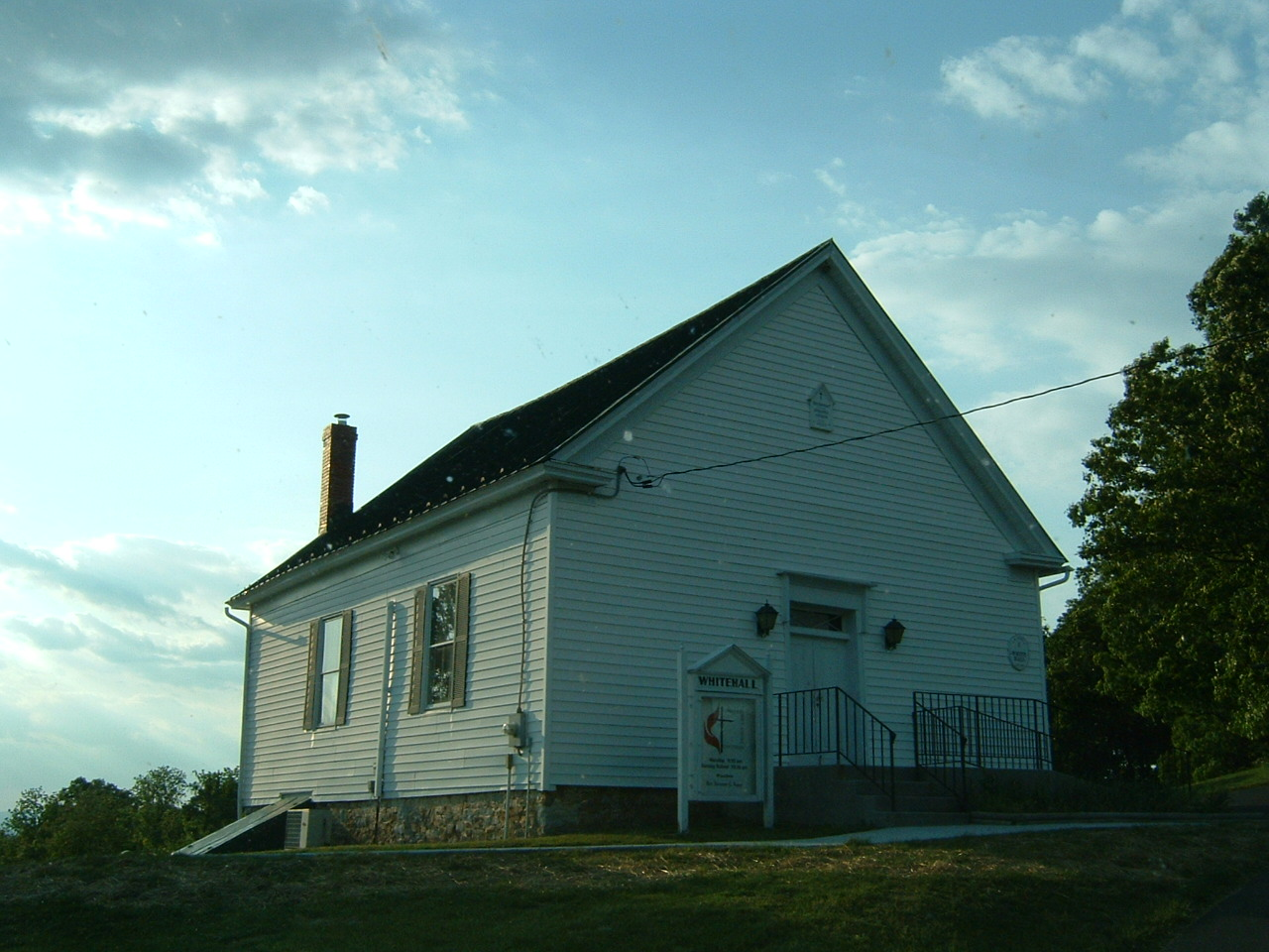 photo of White Hall UMC